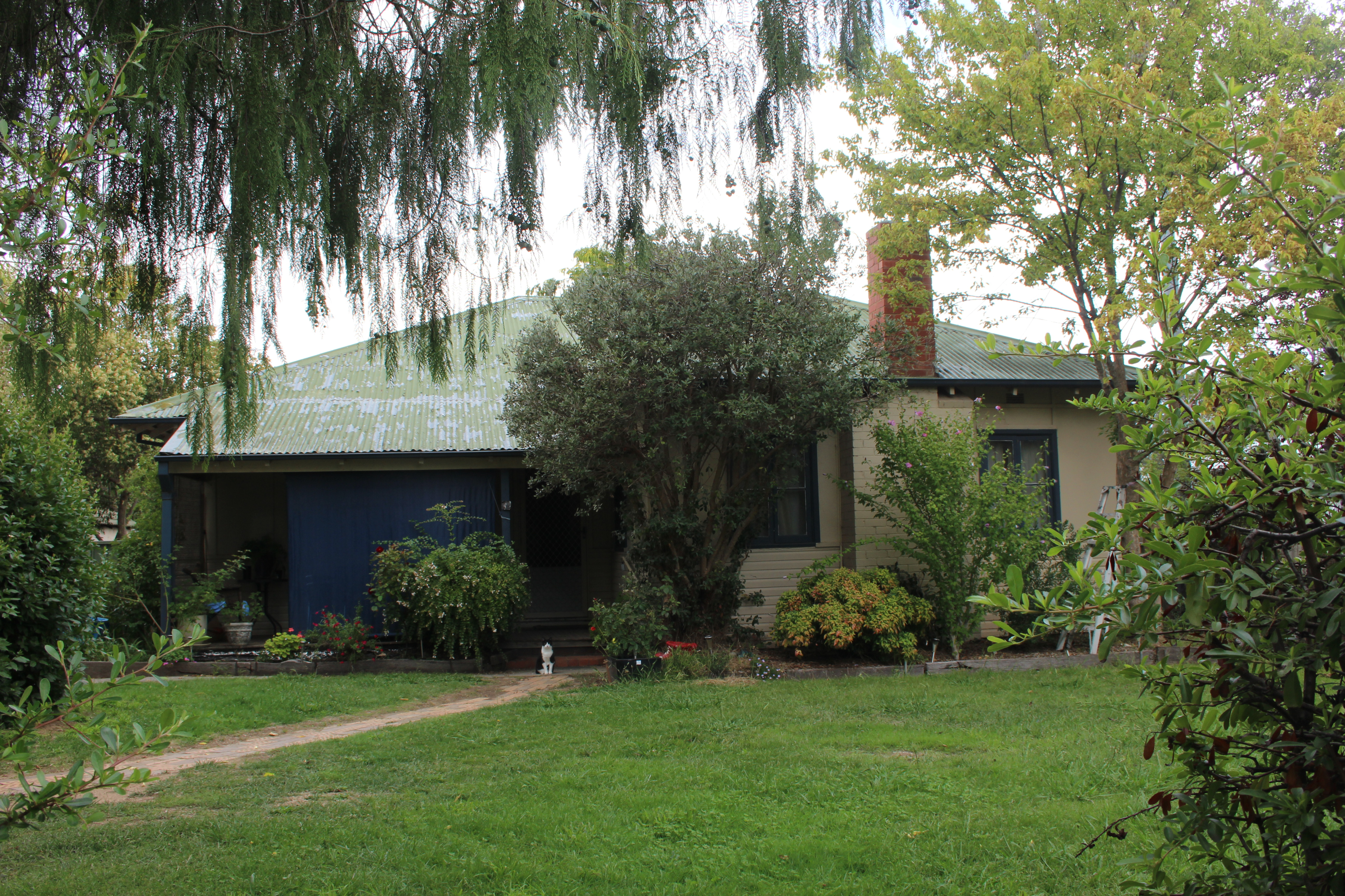 Tocumwal House, Todd Street, O'Connor